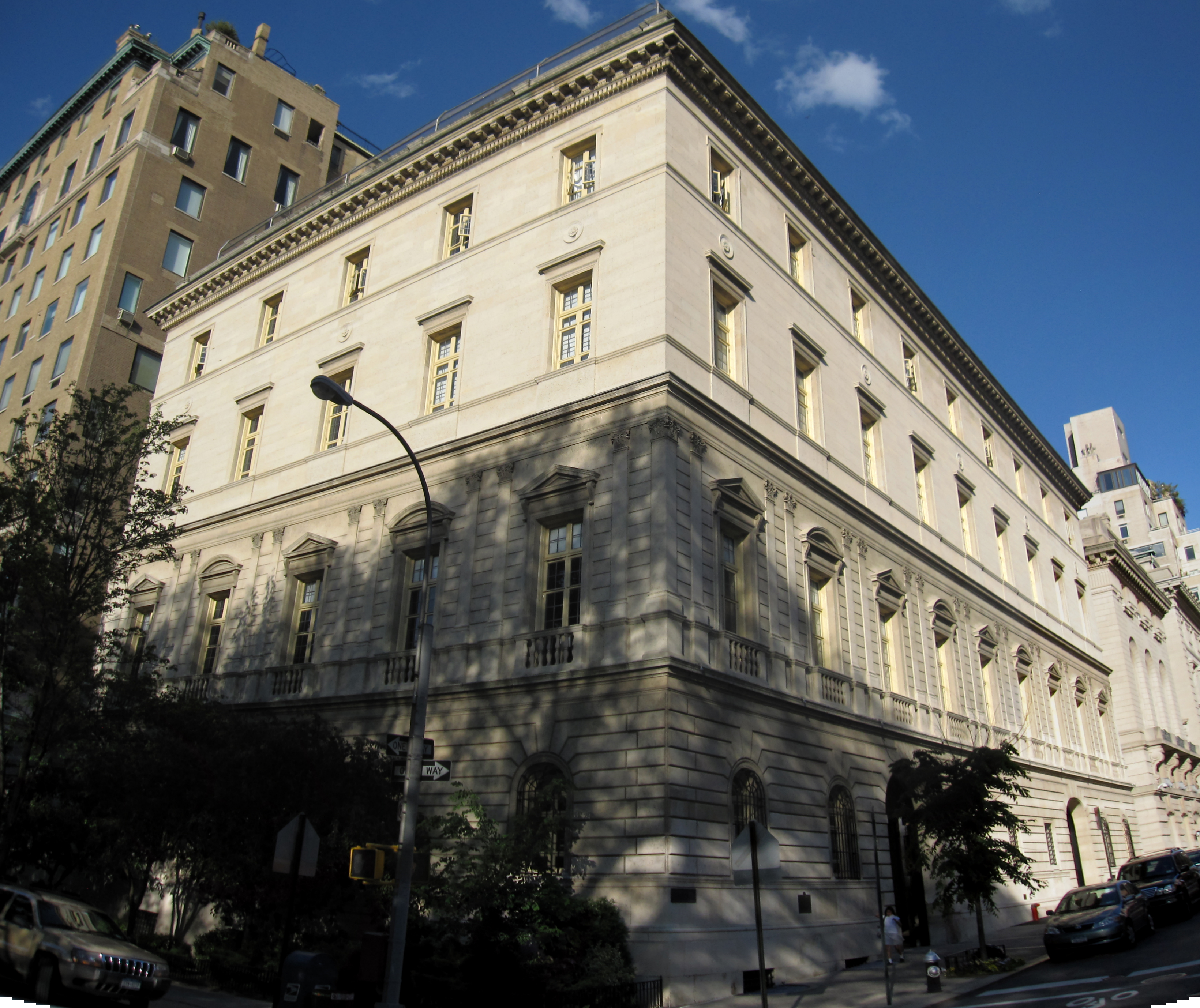 Otto Kahn Mansion